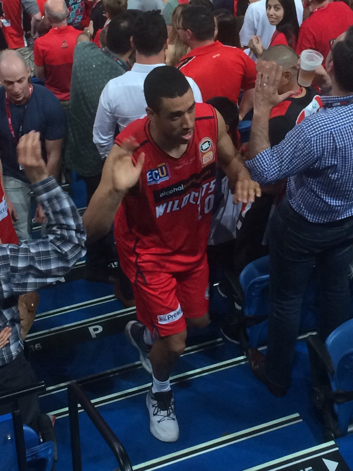 Dexter Kernich-Drew with the Perth Wildcats